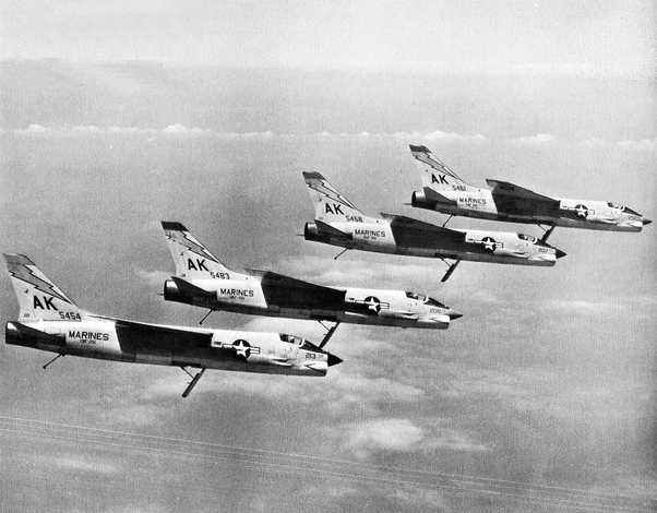 Four U.S. Marine Corps Vought F8U-1E Crusader from Marine Fighter Squadron VMF-251 Thunderbolts in flight. VMF-251 was assigned to Carrier Air Group 10 (CVG-10) aboard the U.S. Navy aircraft carrier USS Shangri-La (CVA-38) for a deployment to the Mediterranean Sea from 7 February to 28 August 1962.